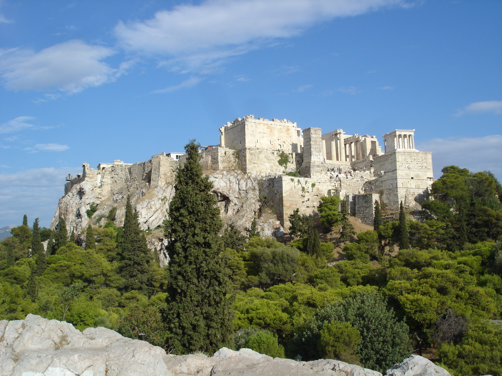 The Acropolis of Athens as seen from the Aeropagus.